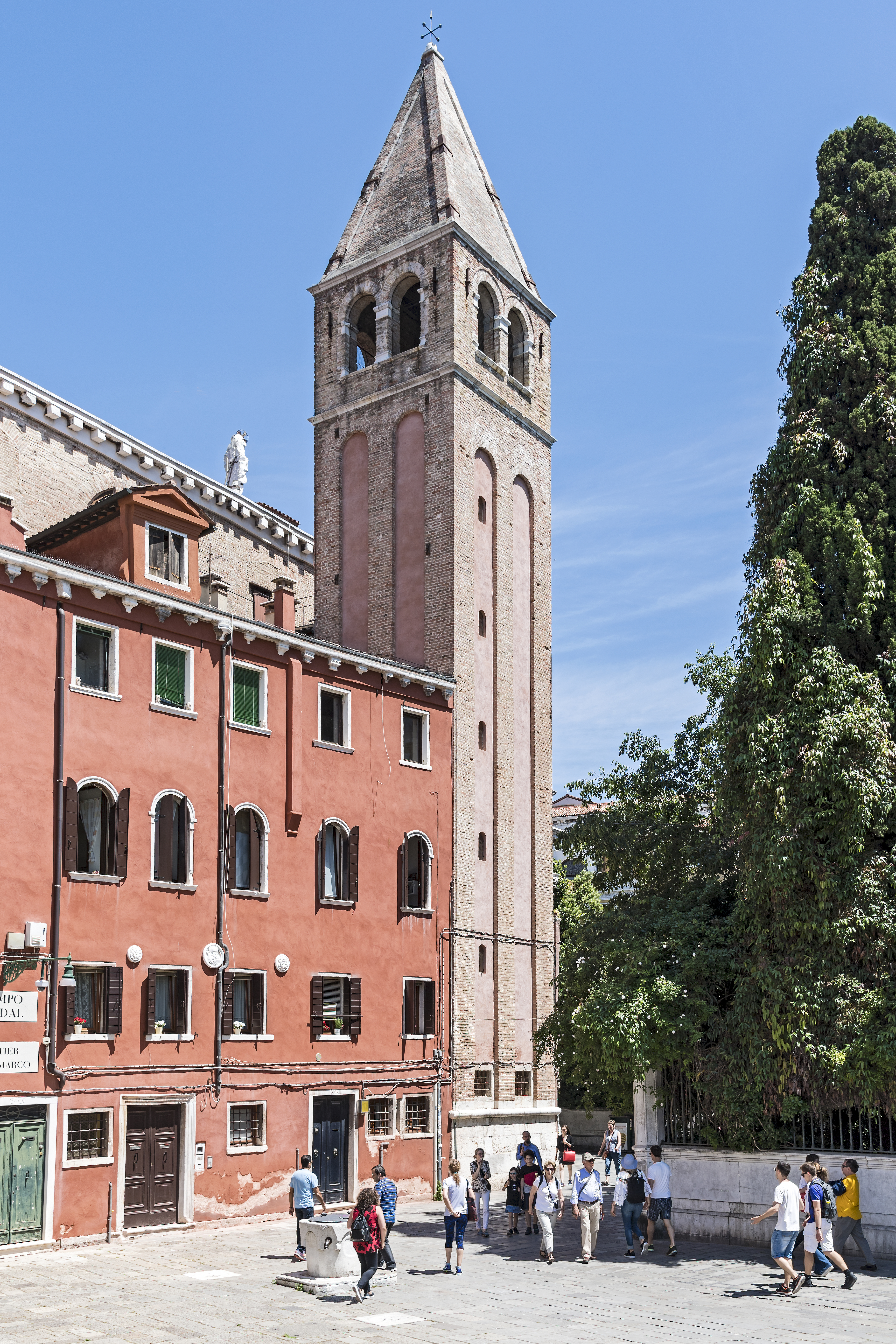 Church San Vidal, in Venice - Bell tower